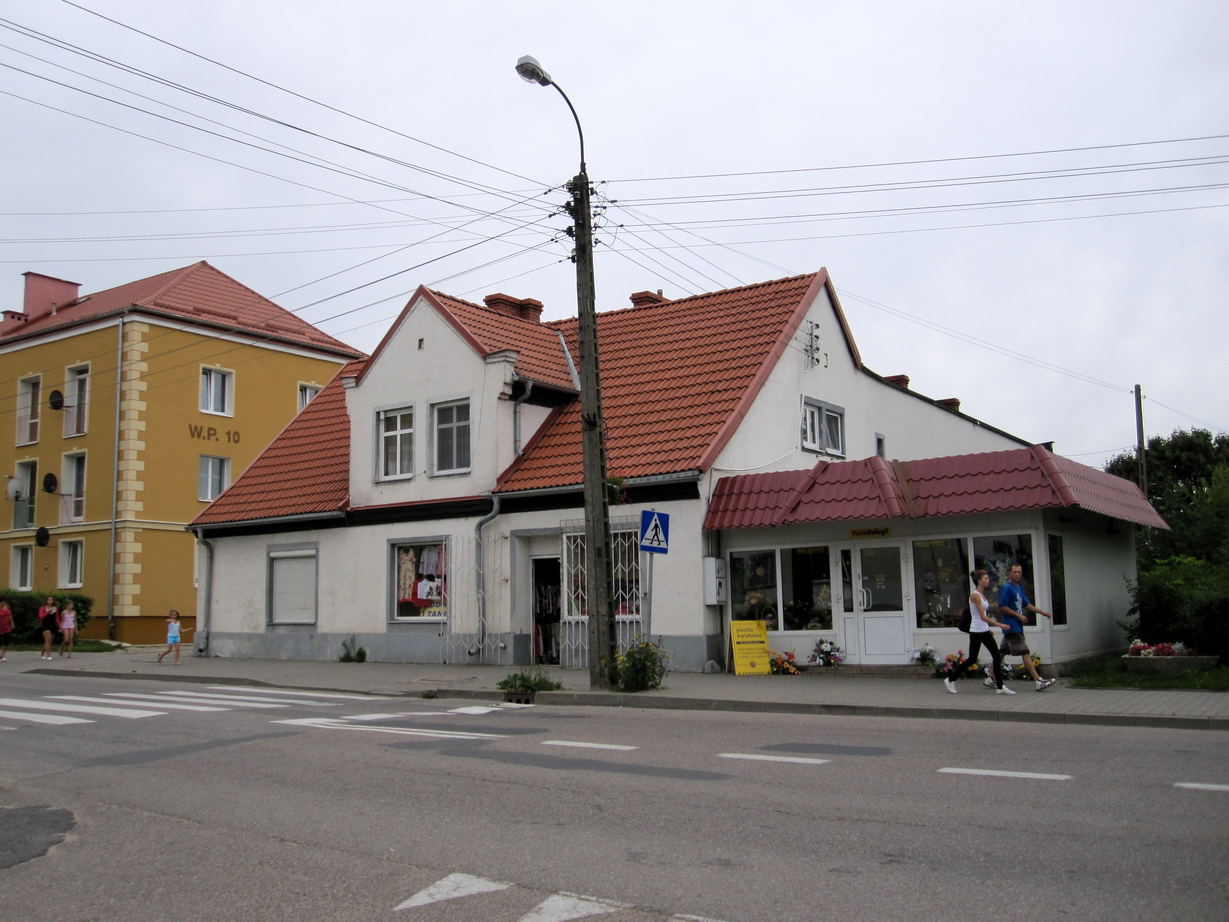 Building on 8 Wojska Polskiego street in Orzysz